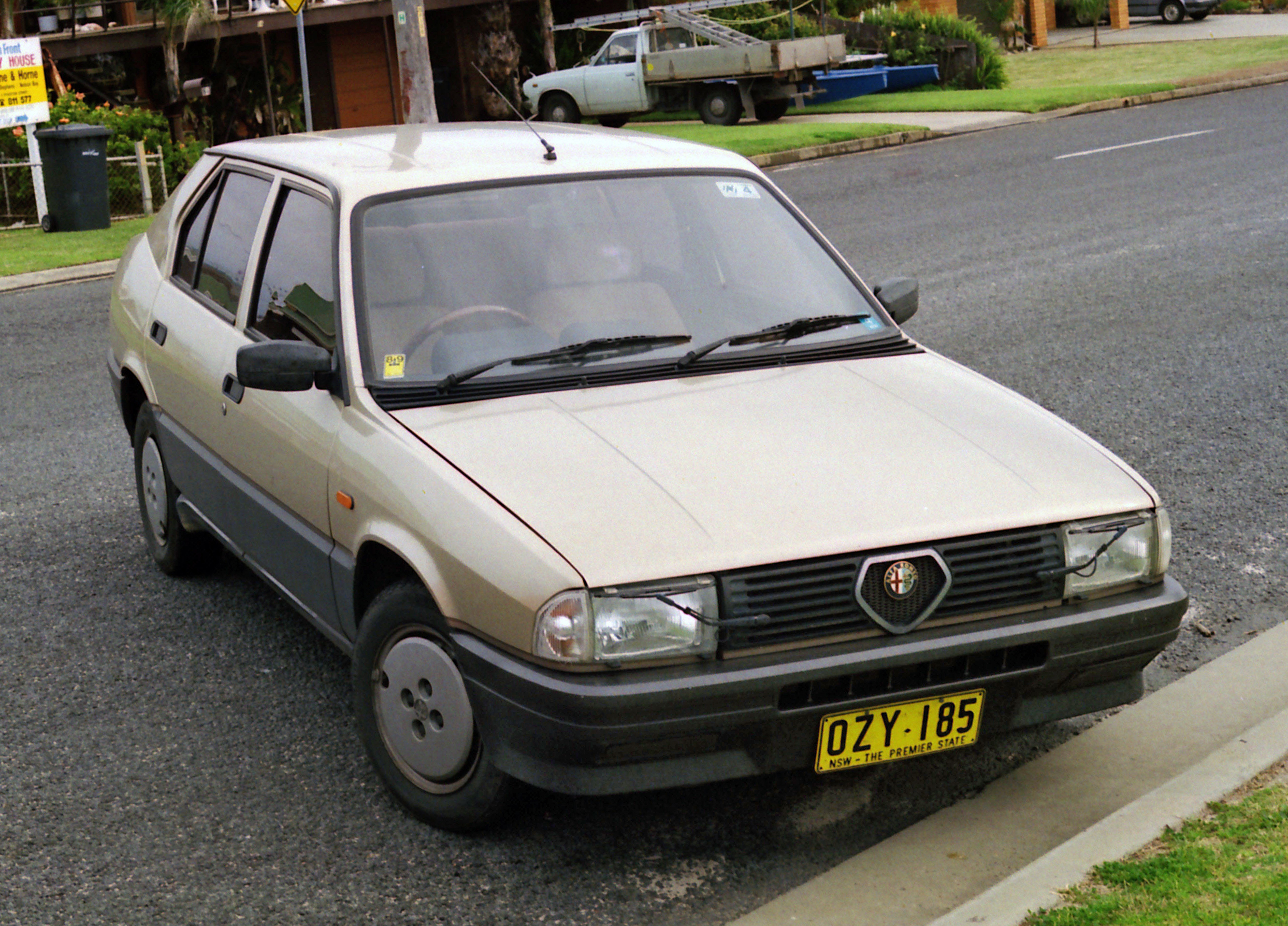 1984 Alfa Romeo 33 hatchback. This appears to be the original model released to Australia in May 1984, with the headlamp washers [1]. This was replaced by the GCL (Gold Cloverleaf) trim in February 1985 [2]. This model also appears to be equivalent to the international Quadrifoglio Oro variant. This image is a scan of a 35 mm print taken in 1989.